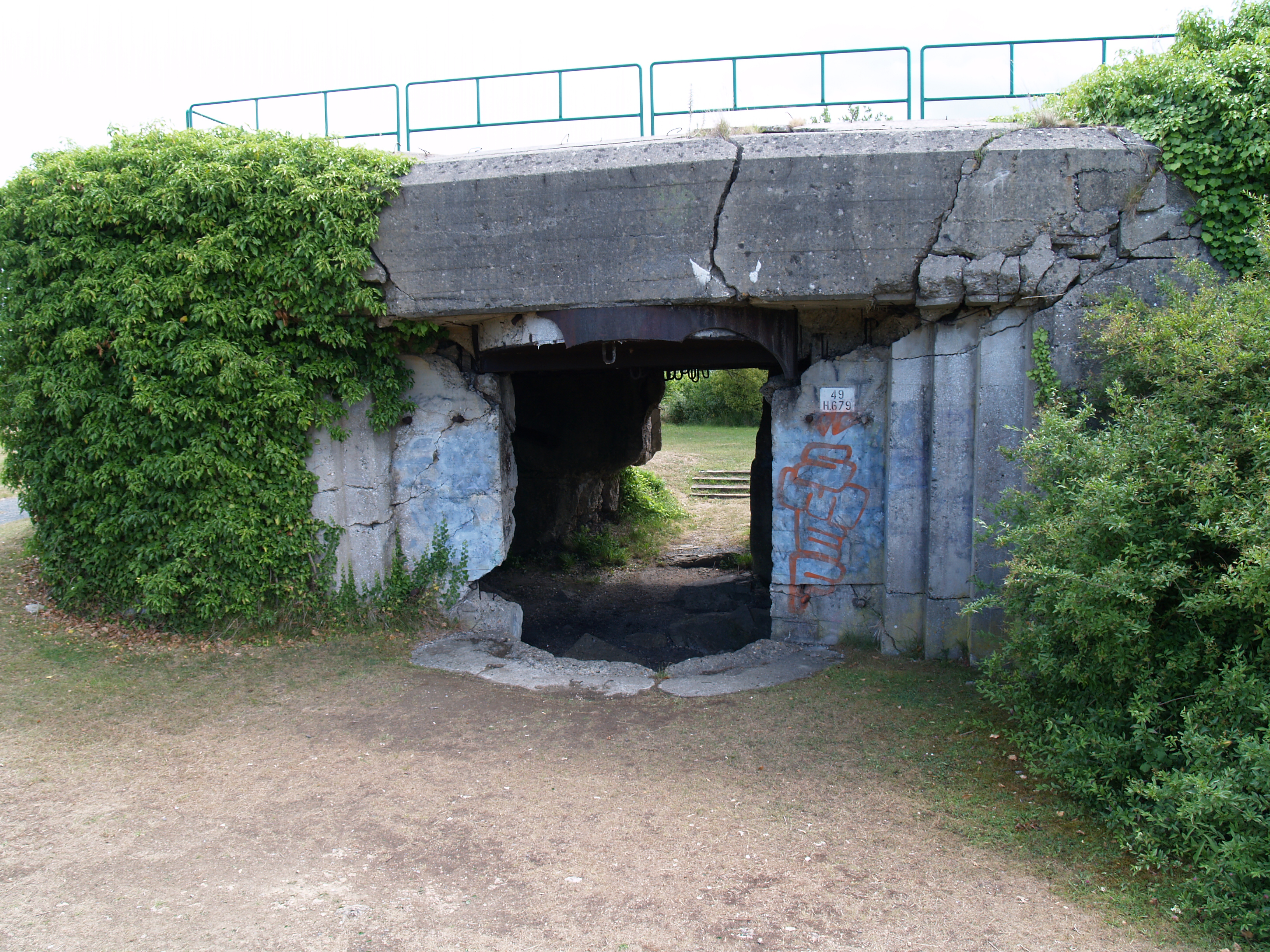 Mont Canisy Battery